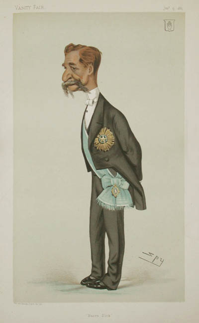 Caricature of Sir Richard Temple, 1st Baronet. Caption reads: "Burra Dick".